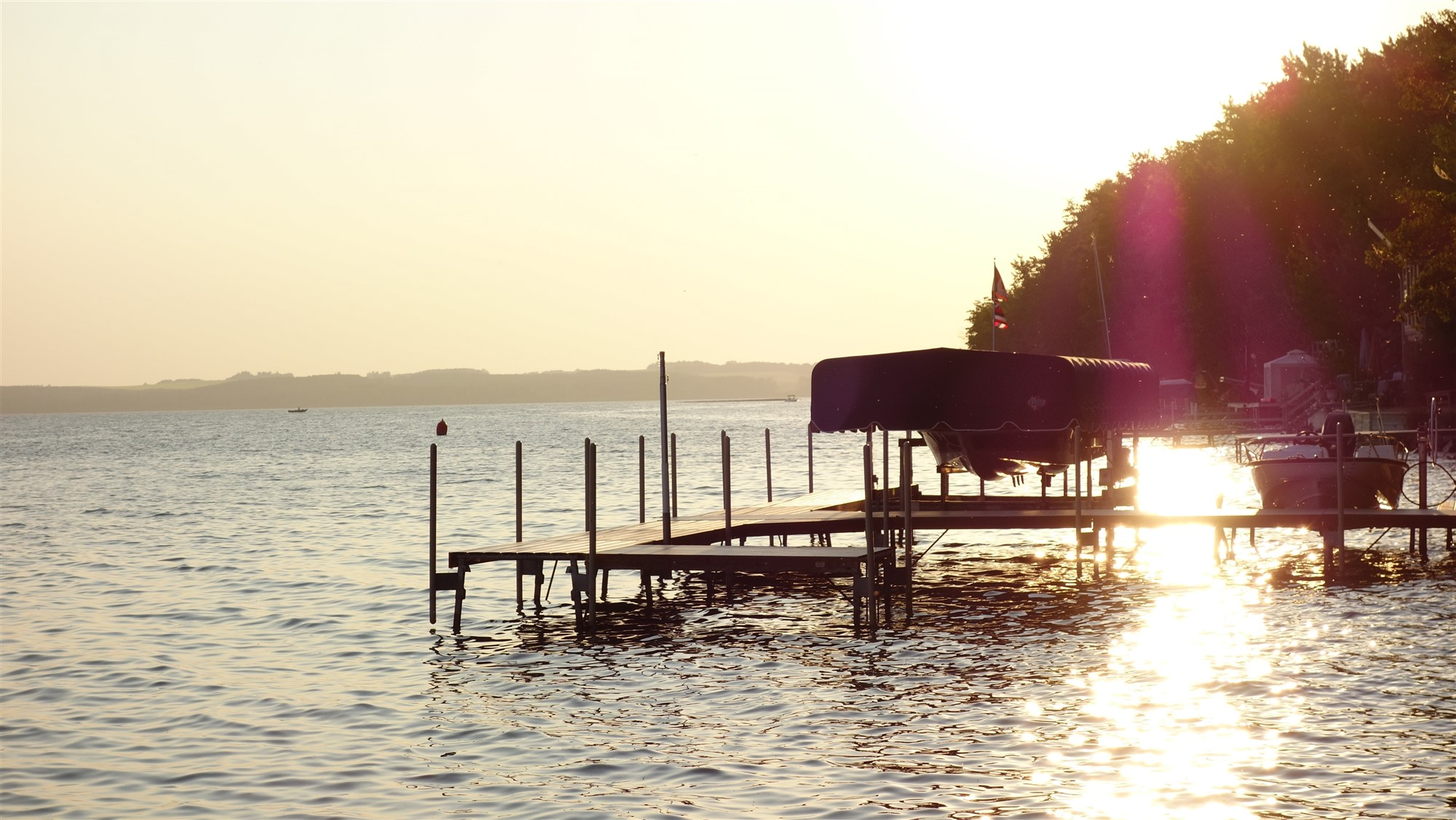 A pier at sunset on the north side of Sylvan Lake, Alberta, Canada